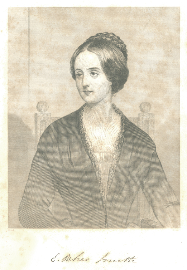 Engraving of Elizabeth Oakes Smith, (1806-1893), a poet, fiction-writer, editor, lecturer, and women’s rights activist.